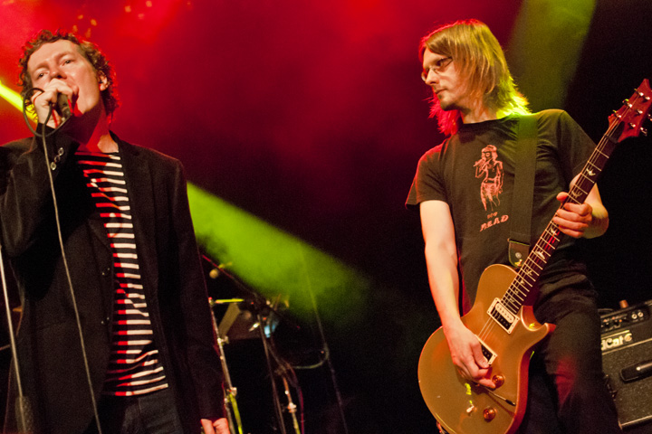 i know these pictures will eventually end up on someone's facebook & co. page. if you intend to do so, please link back here and add a copyright remark.